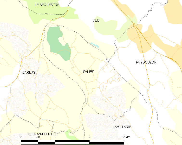 Map of French municipality Saliès